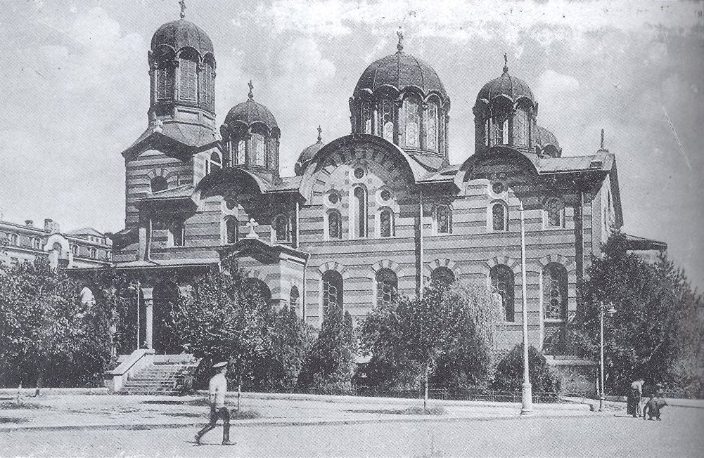 St Nedelya Church, Sofia, Bulgaria